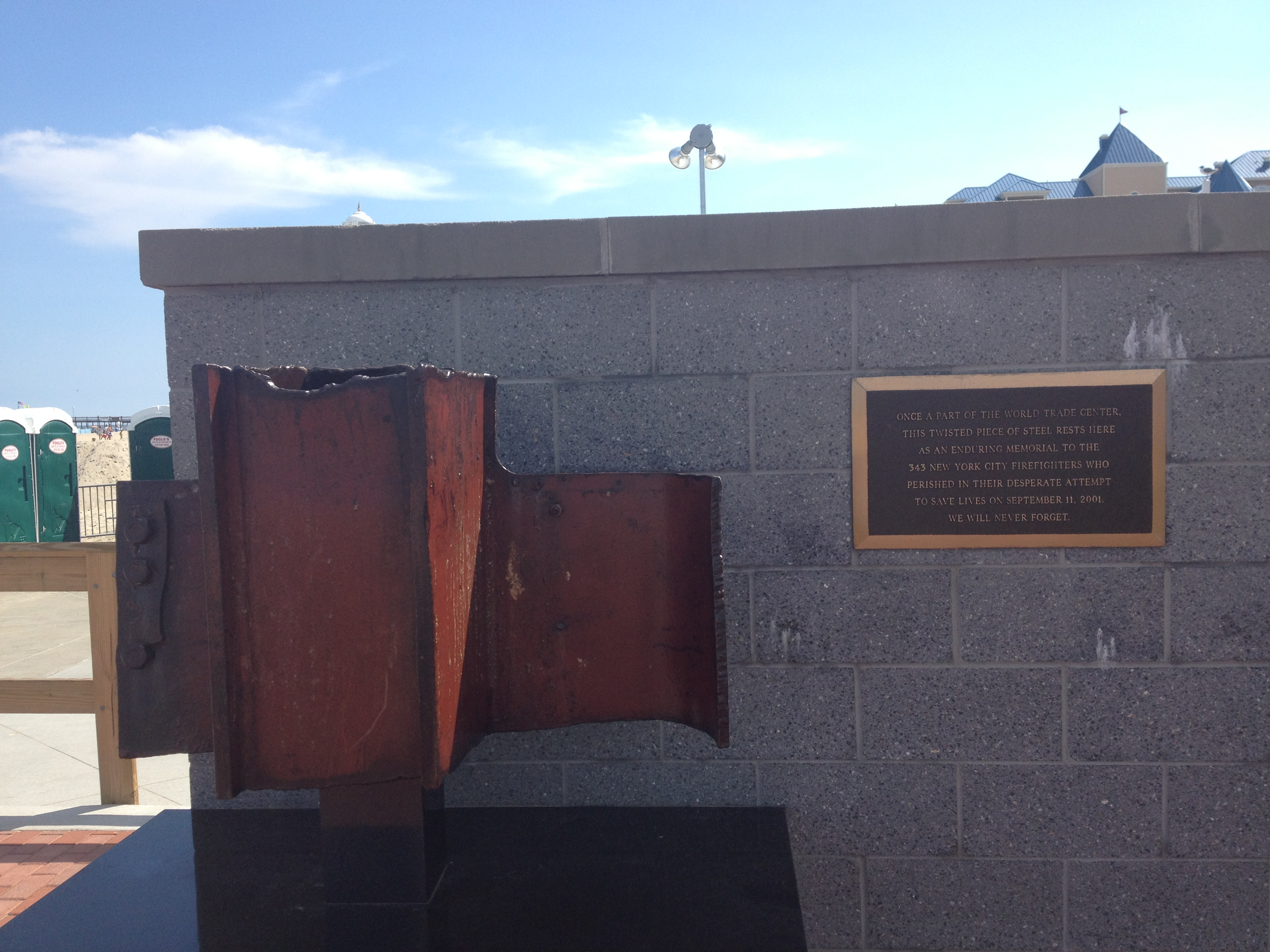 A memorial on the Ocean City, Maryland boardwalk honoring the New York City firefighters who lost their lives in the September 11, 2001 attacks. A piece of the World Trade Center is a part of the memorial.